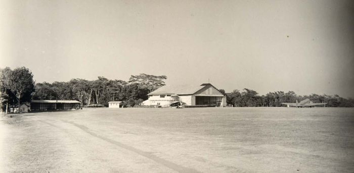 Tjililitan Airport near Batavia